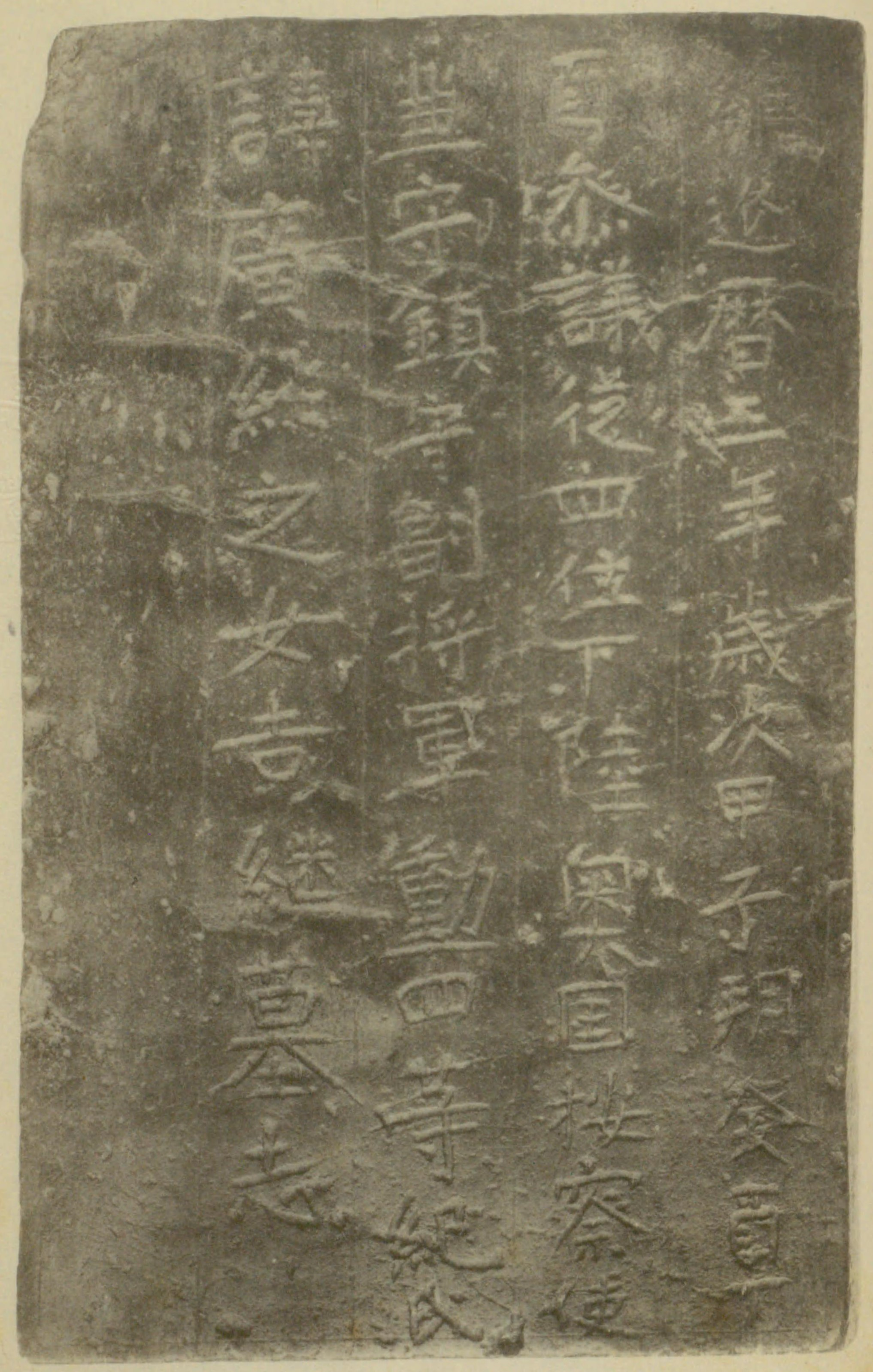 The epitaph of Ki no Yoshitsugu made in 784 at Myoken-ji, Taishi, Osaka prefecture. An Important Cultural Property of Japan.